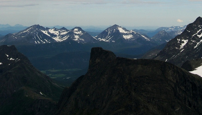 Own work Summer 2005 Romsdalshornet from Breitinden (south)